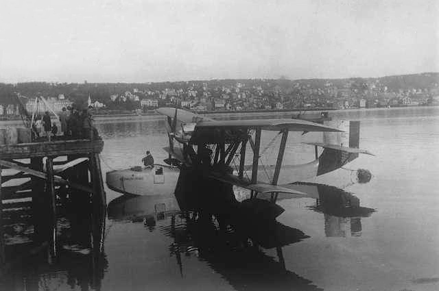 Latham 47.02, in Tromsø shortly before polar explorer Roald Amundsen took off searching for Umberto Nobile, never to be seen again.